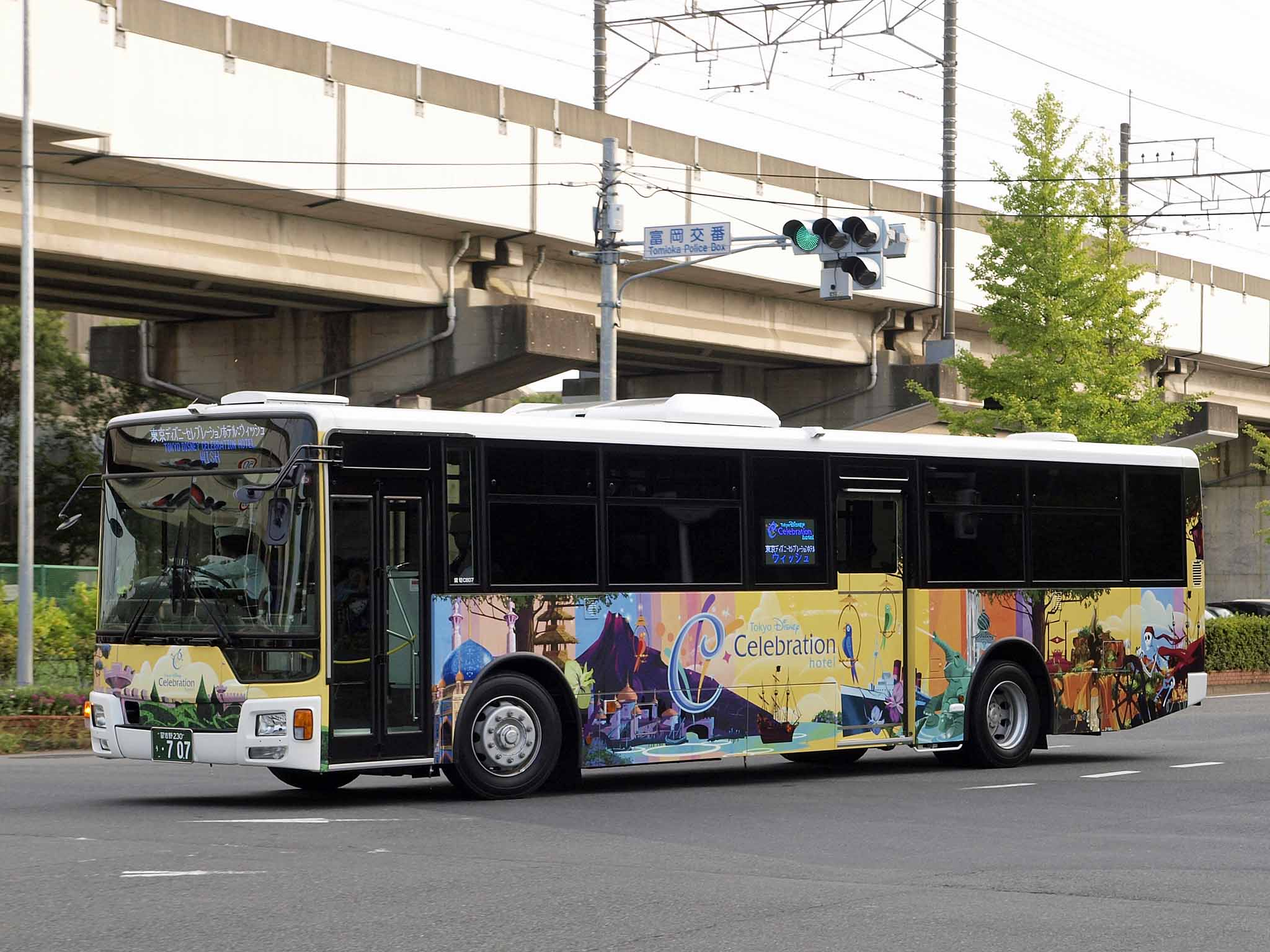 Fleet of "Wish and Discover Shuttle", for Tokyo Disney Celebration Hotel Guests, operated by Keisei Transit Bus. Model: Mitsubishi Fuso Aero Star QKG-MP35FP License plate: CBN230 U0707 Place: Tomioka, Urayasu City, Chiba Japan